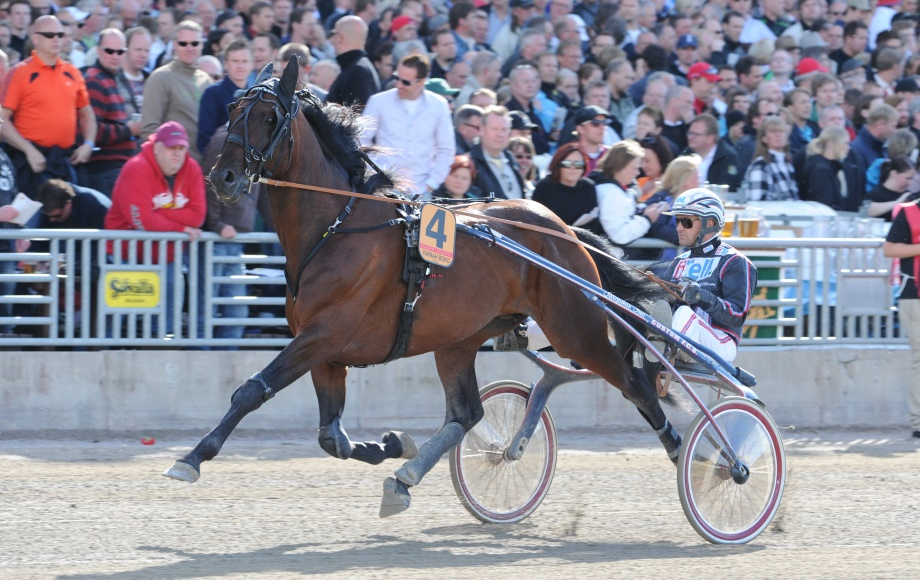 Yarrah Boko and driver Ulf Ohlsson, Elitloppet 2011-05-29.